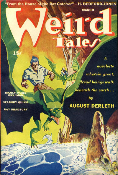 Cover of the pulp magazine Weird Tales (March 1944, vol. 37, no. 4) featuring The Trail of Cthulhu by August Derleth. Cover art by John Giunta.